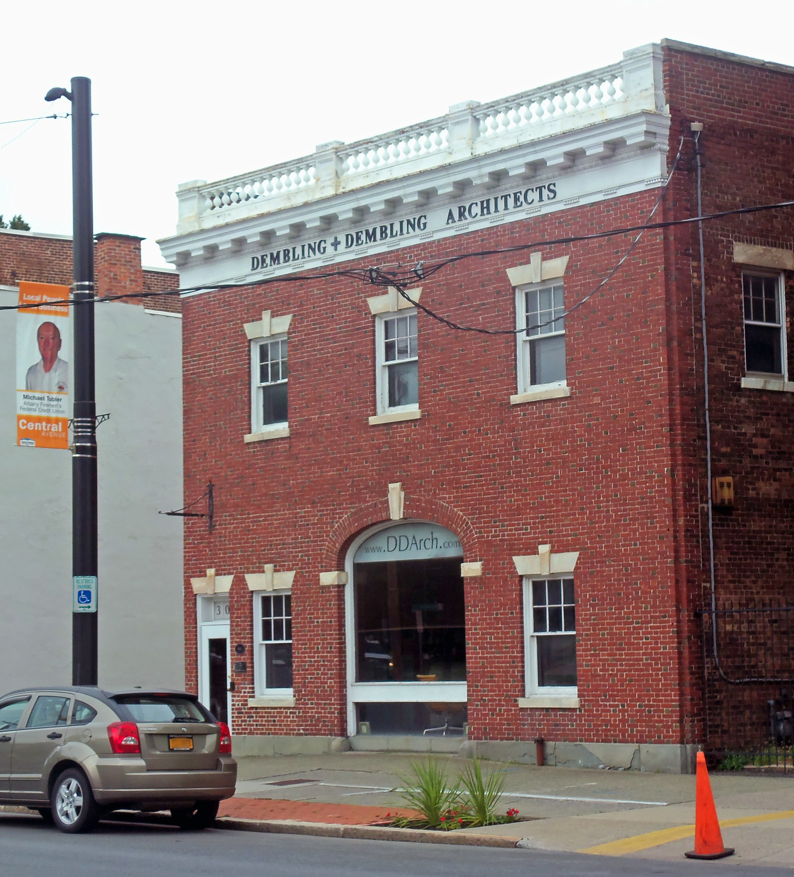 Benjamin Walworth Arnold Carriage House. Goes with this house a block away; only two buildings in Albany, NY, USA, designed by Stanford White.